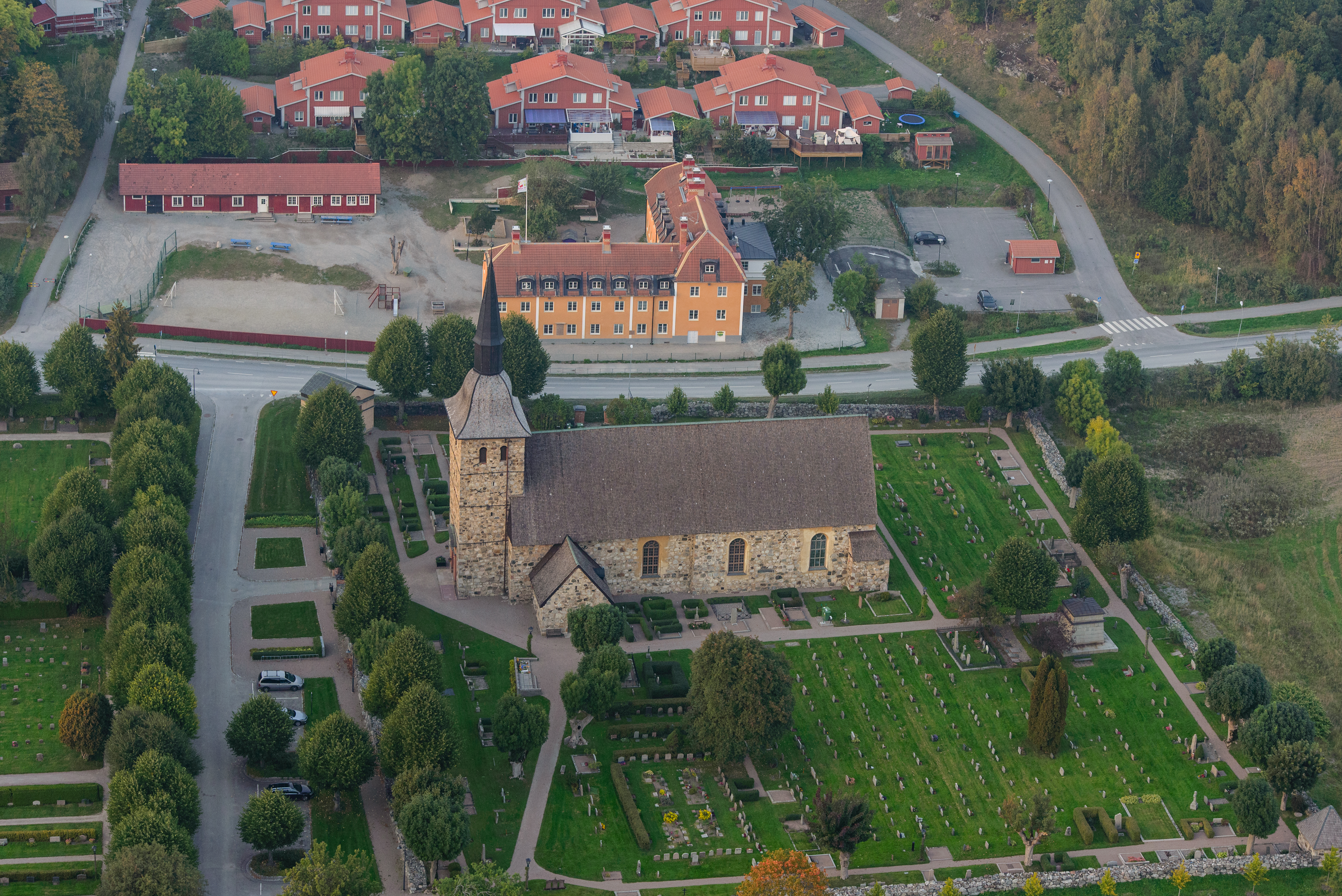 Botkyrka kyrka (church).